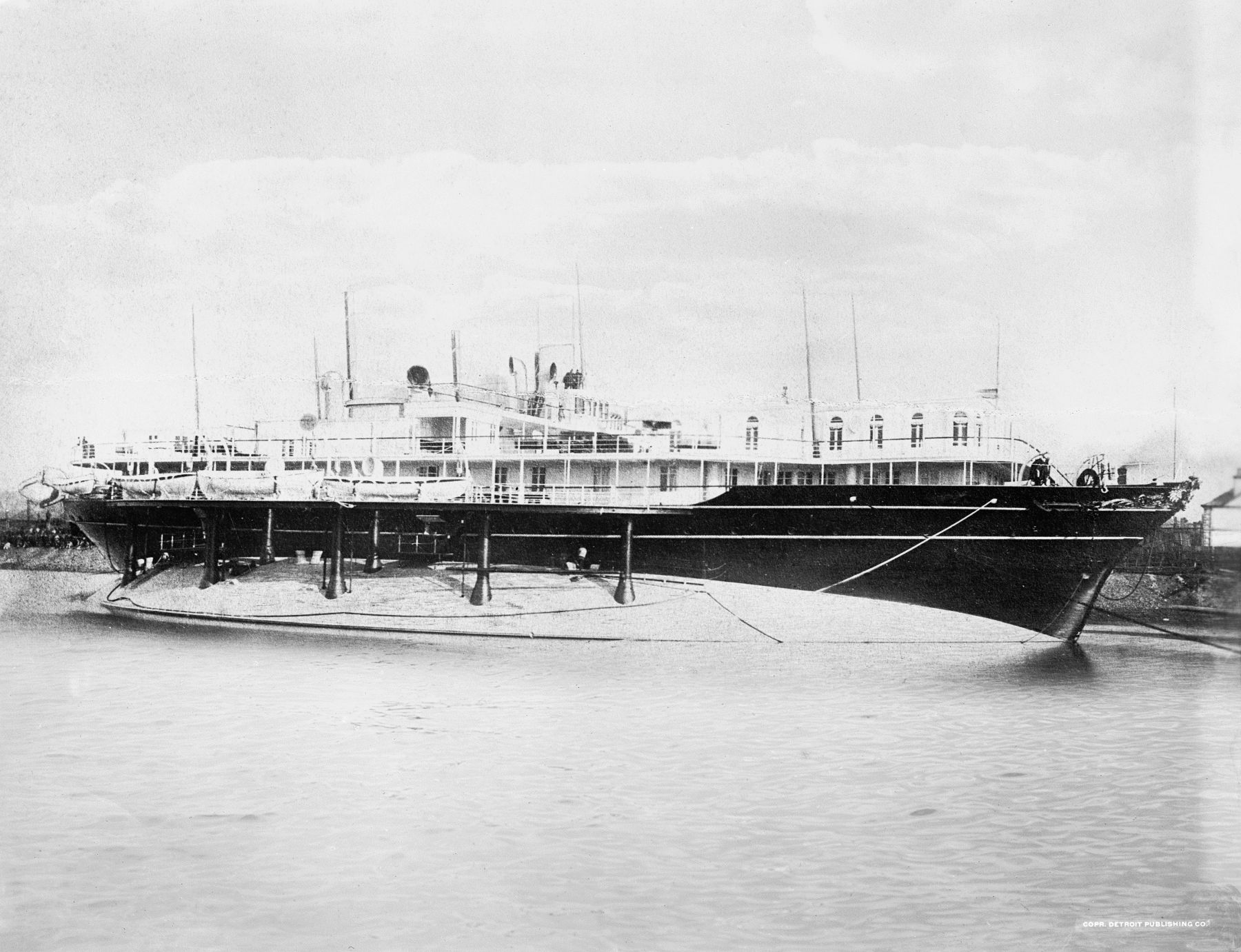 Title: Livadia, Russian imperial yacht Related Names: Detroit Publishing Co. publisher , copyright claimant Date Created/Published: c[between 1905 and 1915] Medium: 1 negative : glass ; 8 x 10 in. Part of: Detroit Publishing Company Photograph Collection Reproduction Number: LC-D4-22747 (b&w glass neg.) Call Number: LC-D4-22747 [P&P] Repository: Library of Congress Prints and Photographs Division Washington, D.C. 20540 USA